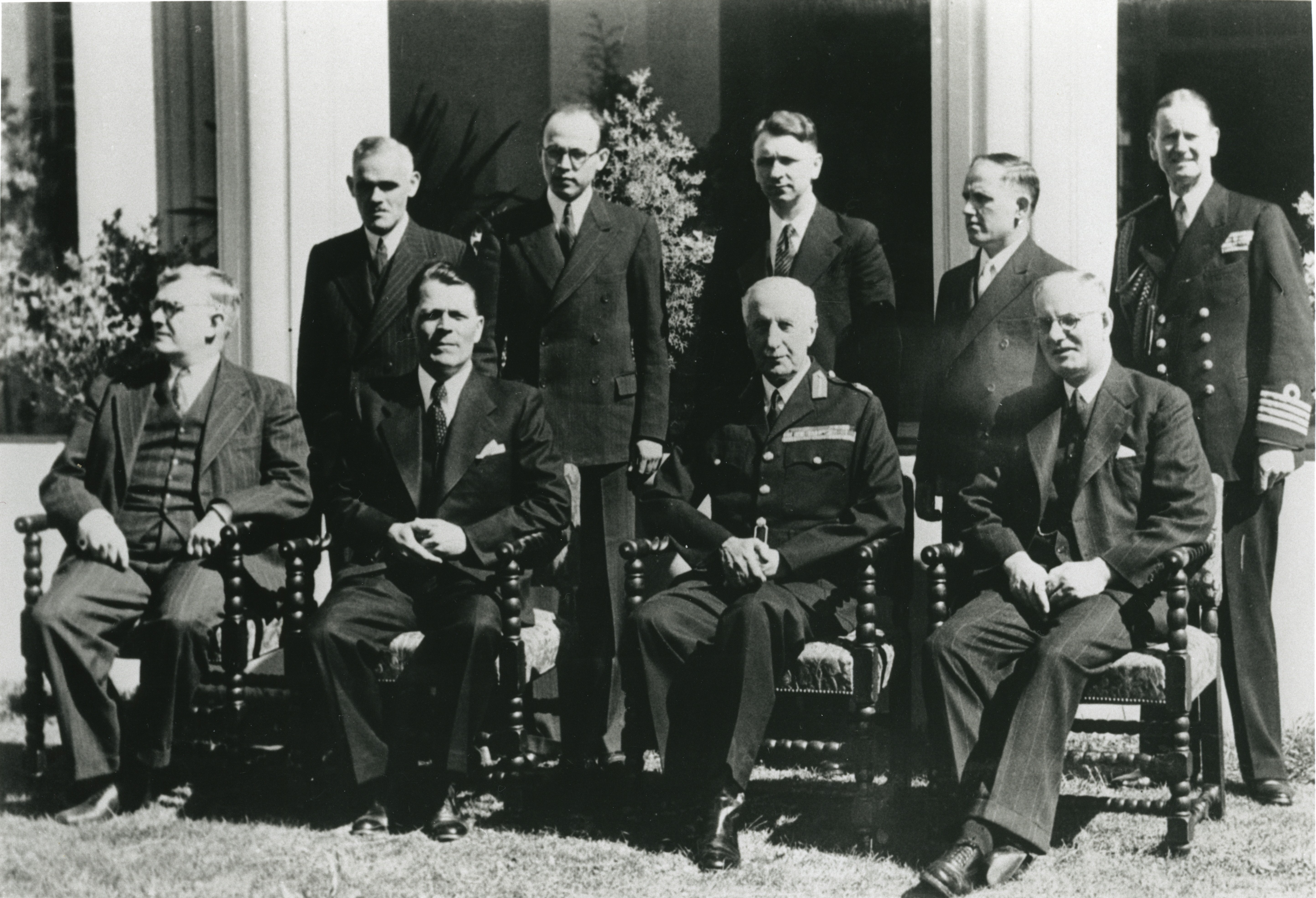 Mr A P Vlasov, First Soviet Minister to Australia, at Government House after presenting his credentials. Seated left to right: Dr H V Evatt, Mr A P Vlasov, Governor-General Lord Gowrie, Prime Minister John Curtin. Standing left to right: Lt Col W R Hodgson, Messrs Soldatov, Schibaev and Carpunin, Captain L S Bracegirdle.